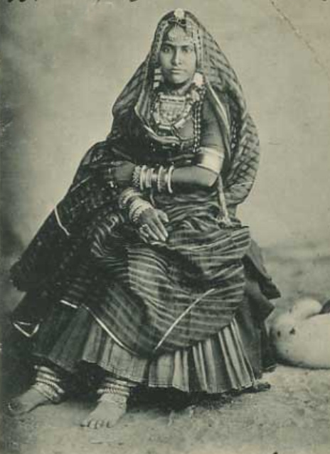 Women in Gagra choli, clothing of traditional clothing of Hindi Belt.